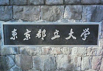 Signboard of Tokyo Metropolitan University =Tokyo Toritsu Daigaku=,Tokyo,Japan